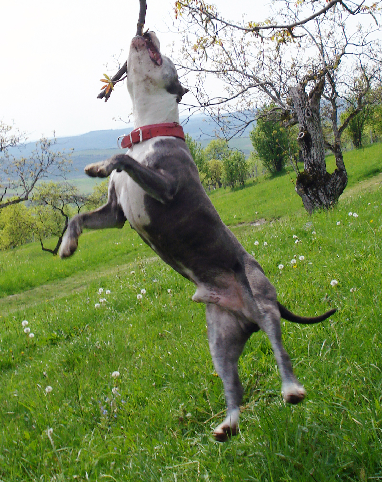 Apbt activity.